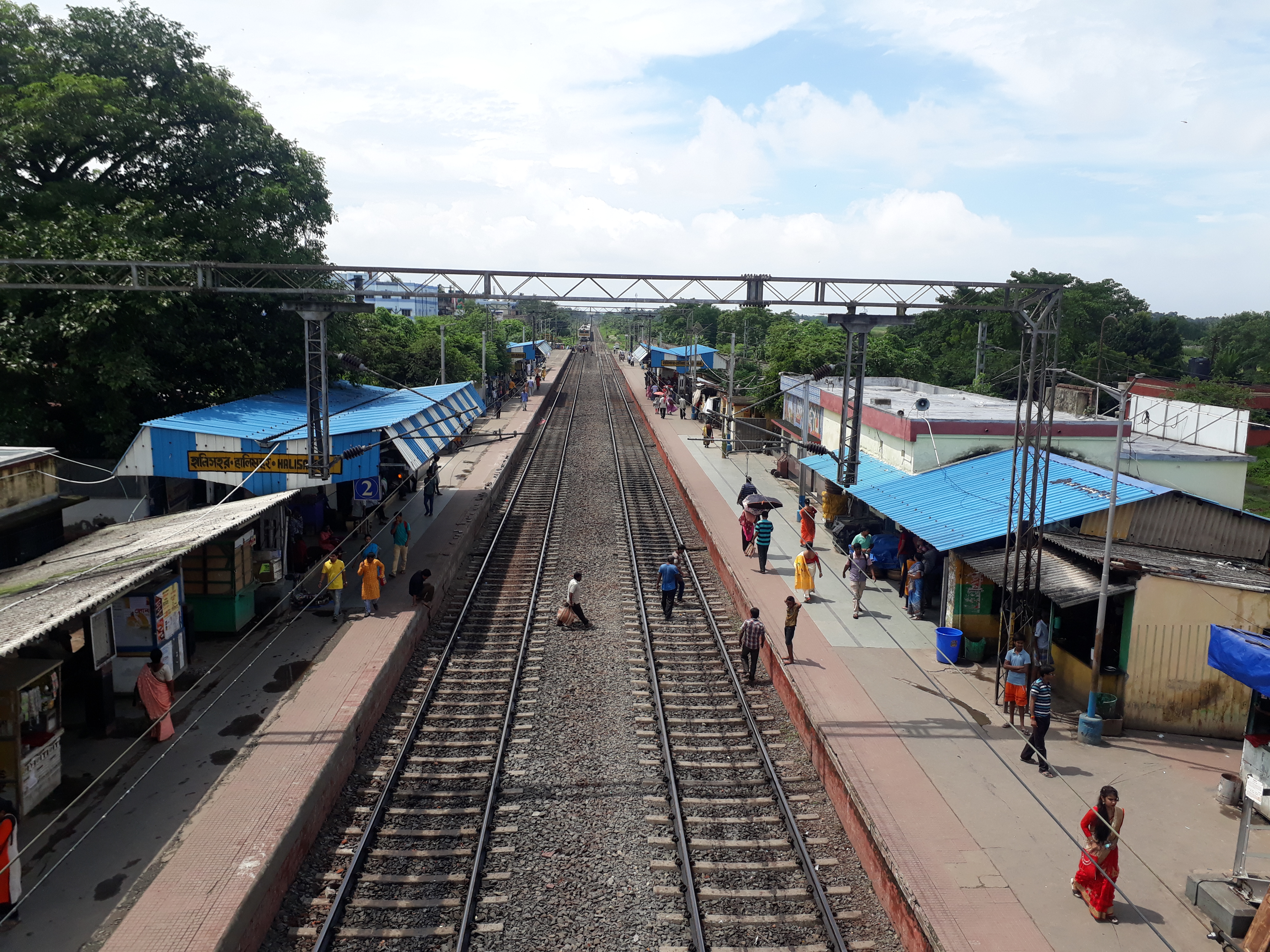 Halisahar railway station, Sealdah main line in North 24 Parganas, West Bengal